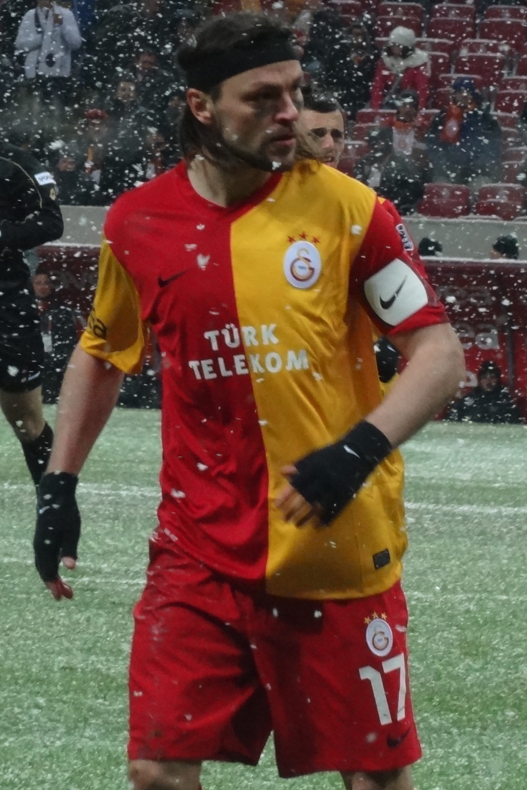 Ujfalusi against Antalyaspor